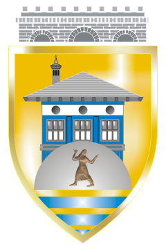 Coat of arms of the Tetovo municipalitie, Republic of Macedonia